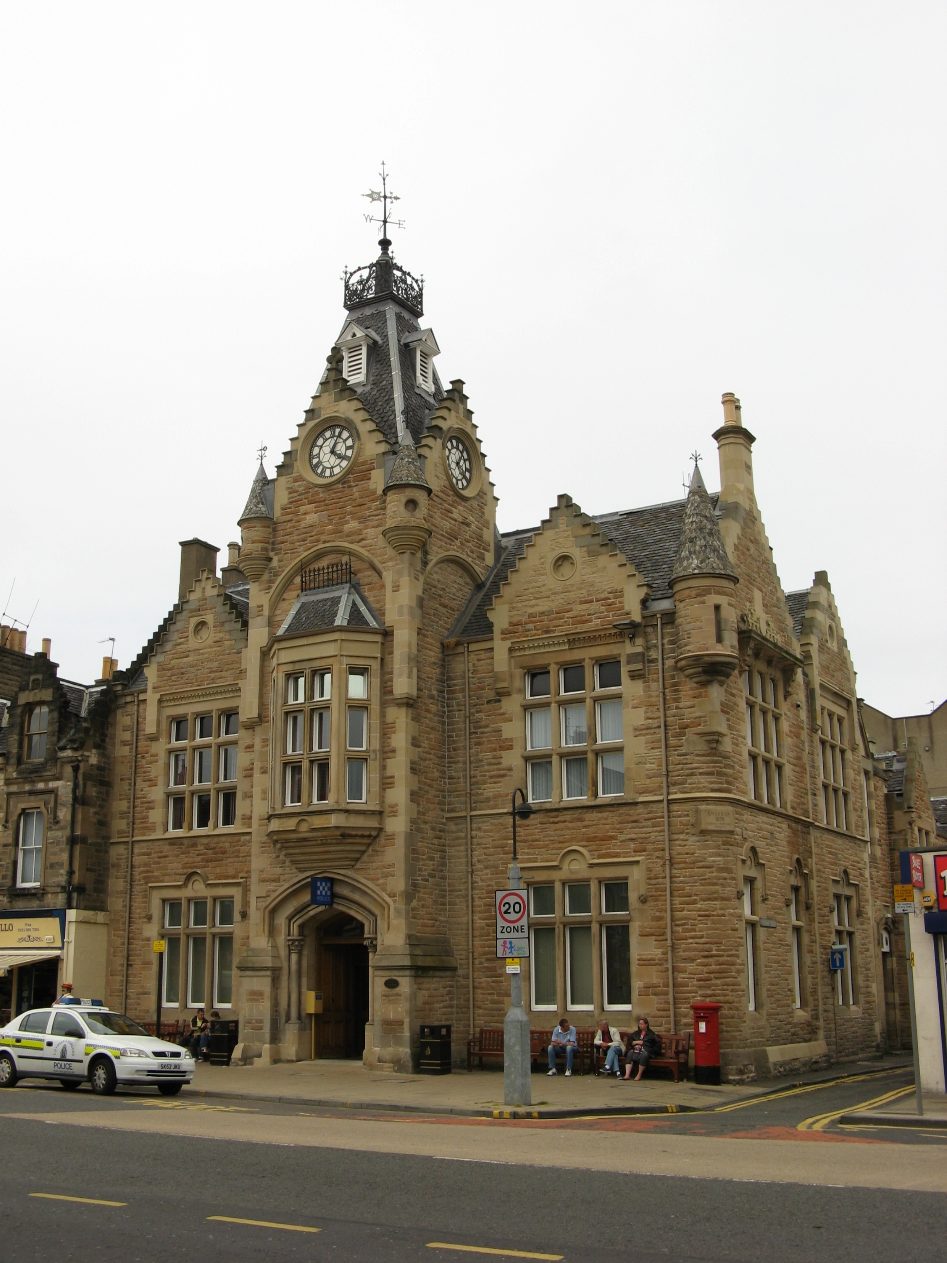 Portobello Police Station, Edinburgh, Scotland.